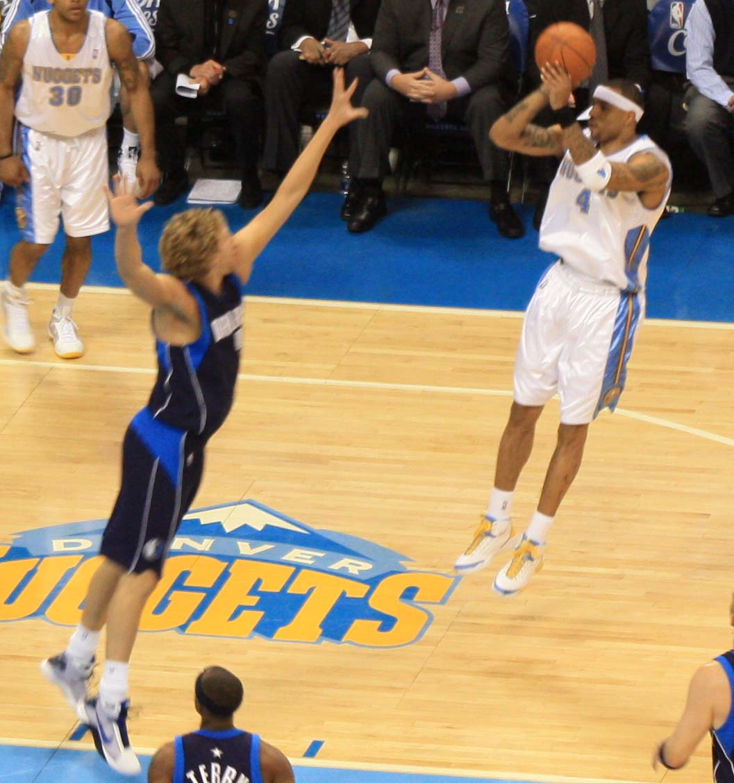 Kenyon Martin of the Denver Nuggets shooting with Dirk Nowitzki of the Dallas Mavericks contesting.